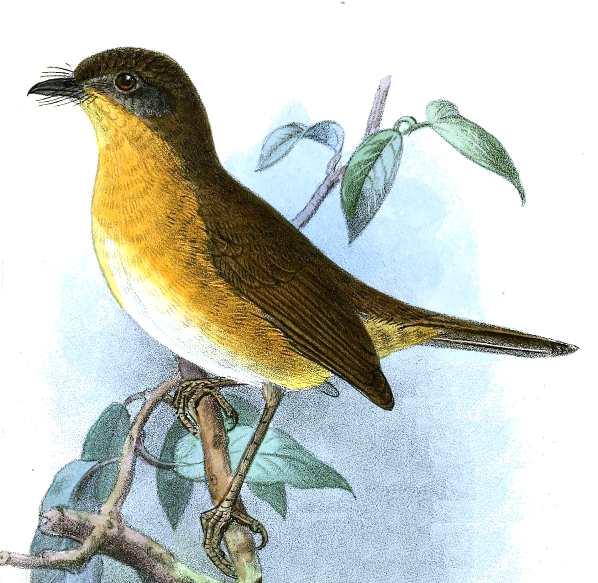 Callene cyornithopsis = Sheppardia cyornithopsis